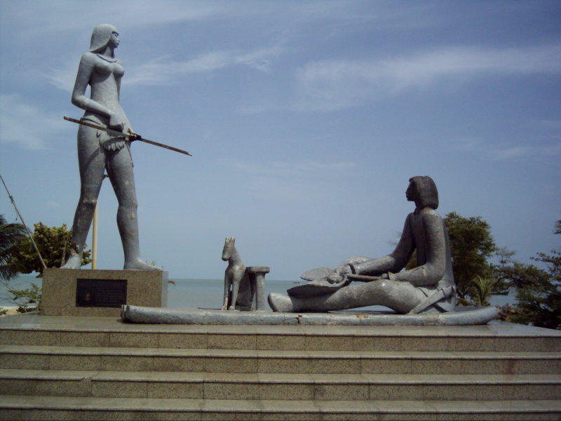 Depicted people: Iracema and Martim Soares Moreno